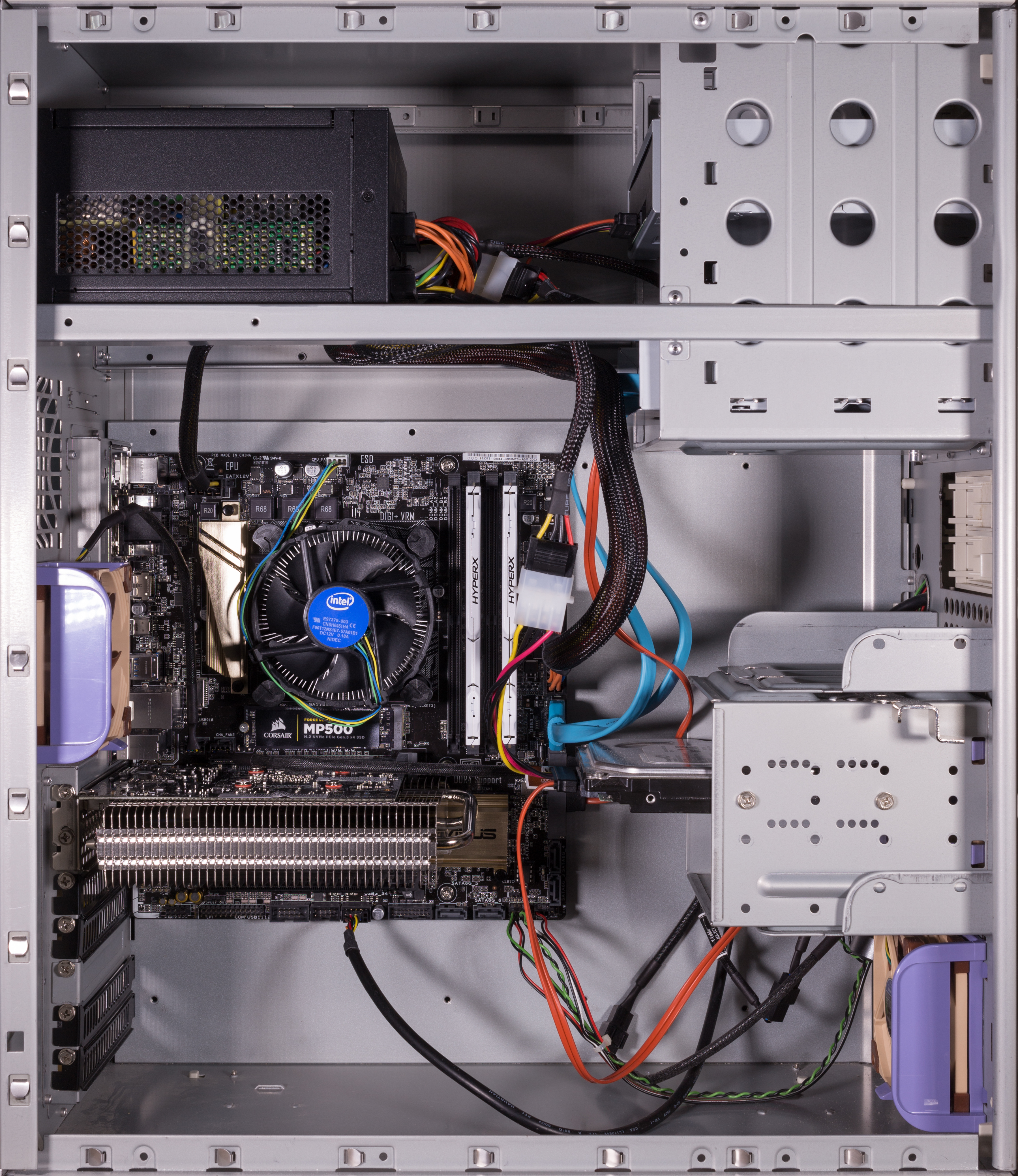 2017 mid range pc in late 1990s case. Intel H170 chipset on micro ATX mainboard. 7th generation 51 watt TDP Pentium G4600 CPU with the so called boxed cooler. Fanless modular 400 watt PSU. M.2 PCIe x4 NVME. 7200RPM hard disk drive and BlueRay/M-Disc writer, each connected to one of the SATA 6Gbit/s ports on the backwardly compatible SATA Express connector via single plug SFF-8482 SAS. Allowing to use a single cable with 8981 peripheral power connectors on the PSU, as the USB3 hub, USB charger and card reader combo unit uses this power connector. Passive cooled Nvidia Geforce GTX 1050TI graphics card. Receiving additional cooling from two front mounted 80mm premium case fans. The upper one also cooling the HDD. A third one pulling air out from the case. DDR 4 RAM. USB2 Connectors on the Front.